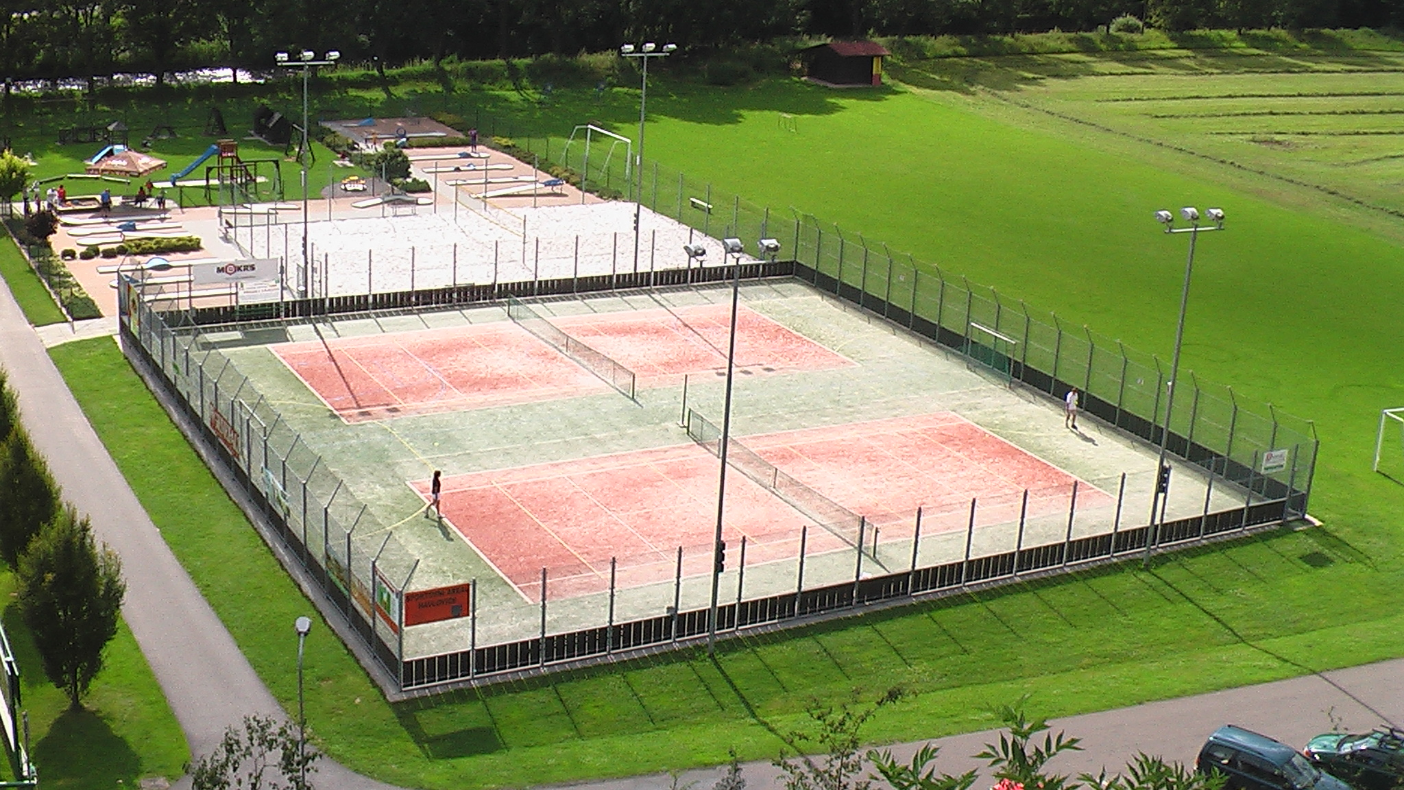 Sports complex in Havlovice.